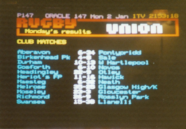 Teletext New Year's Day 1989. Novos in exalted company.